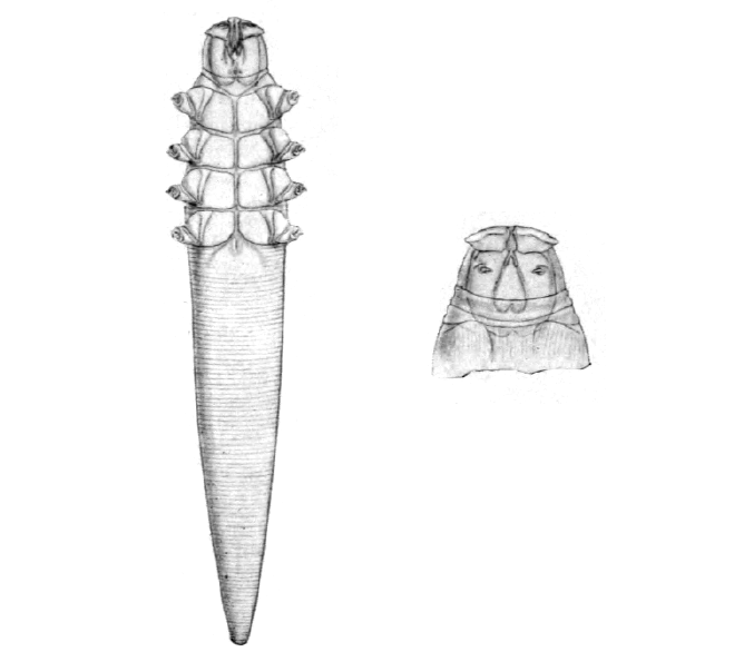 Ventral view of female mite Demodex canis and dorsal view of its capitulum.